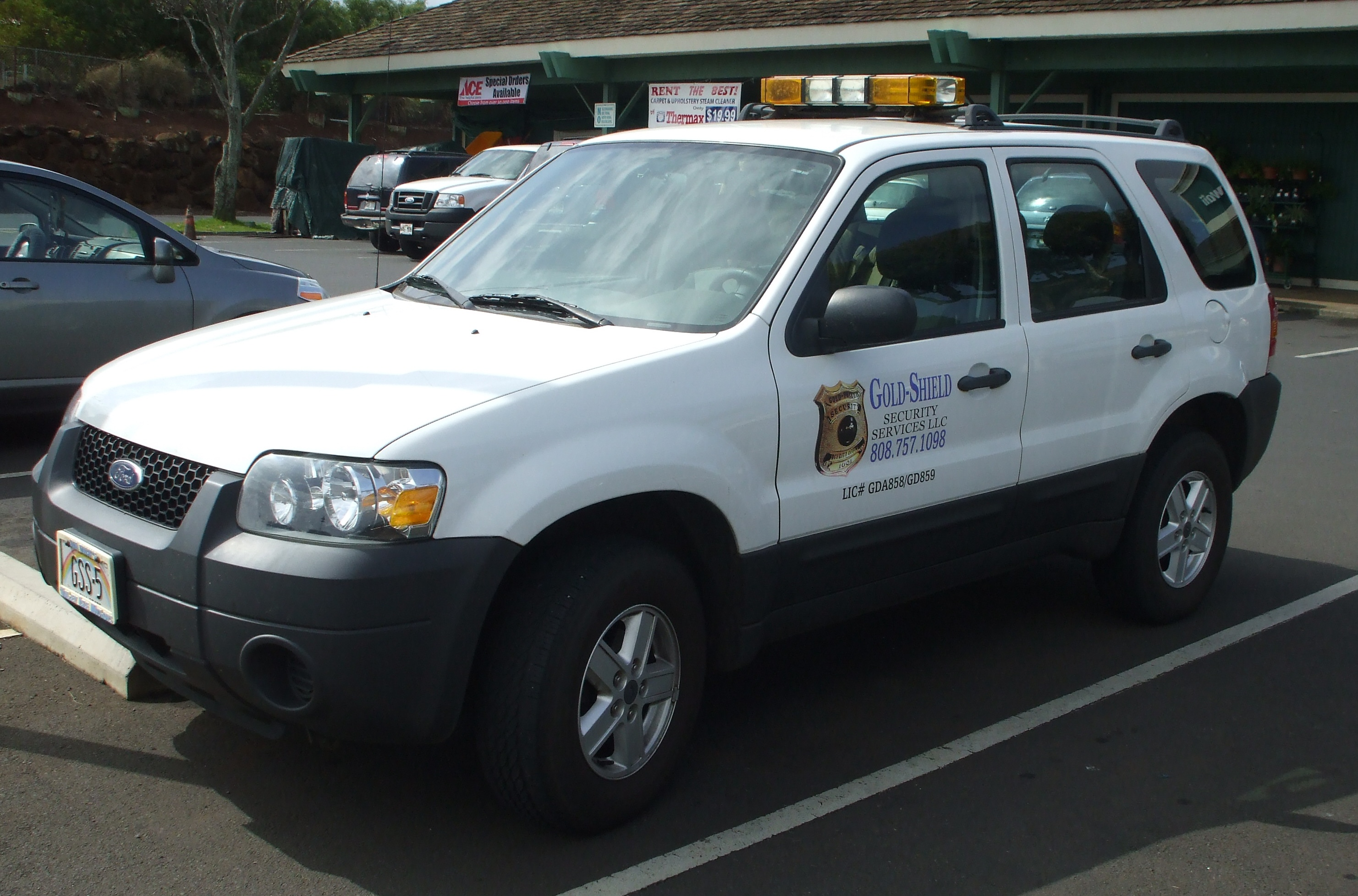 Security Car